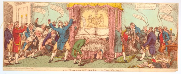 Satirical print from 1814, The Divine and the Donkey–or Petworth Frolicks against the Prince Regent and one of his entourage. A drunken parson is being put to bed with an ass-foal wrapped in a petticoat, a prank after celebrations of the battle of Leipzig. The parson is identified in the Oxford Dictionary of National Biography as James Stanier Clarke: he was being 'punished' for setting up an assignation with a servant-girl. The incident at Petworth House was real, but details such as the presence of the Prince Regent seem to be fictional.